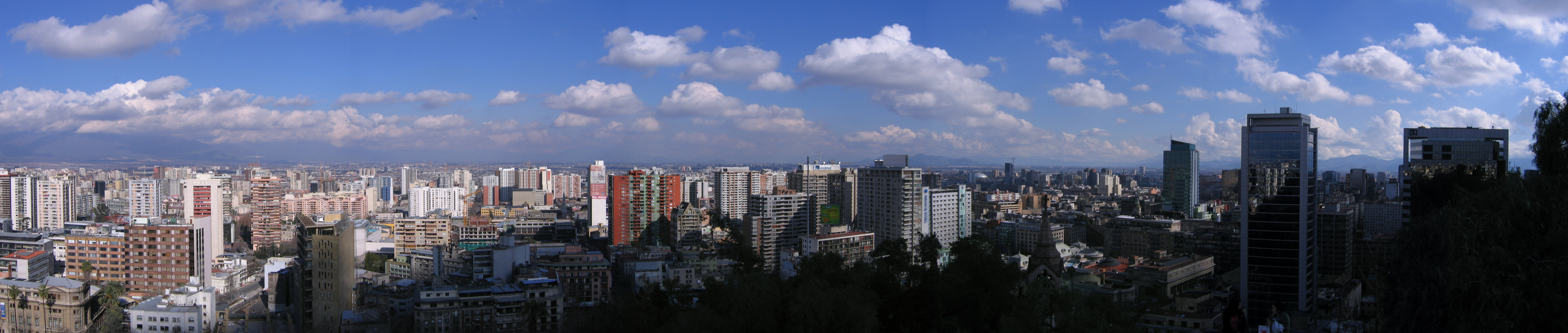 The city of Santiago as seen from the Santa Lucia hill